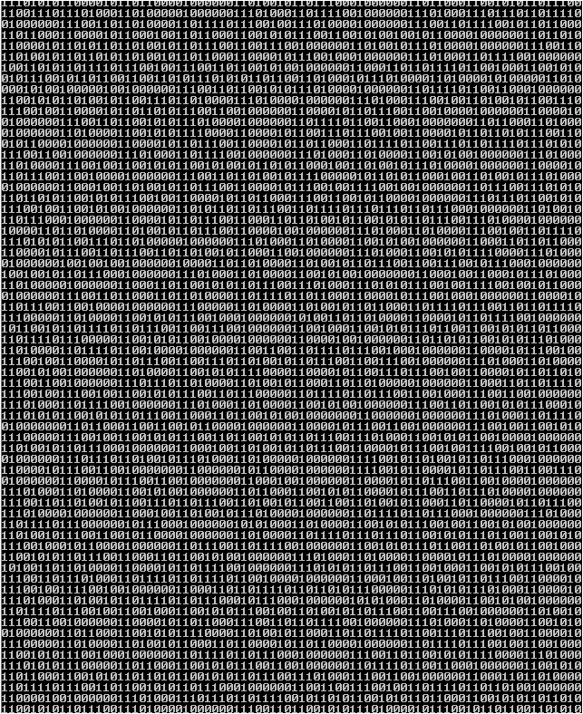 A binary